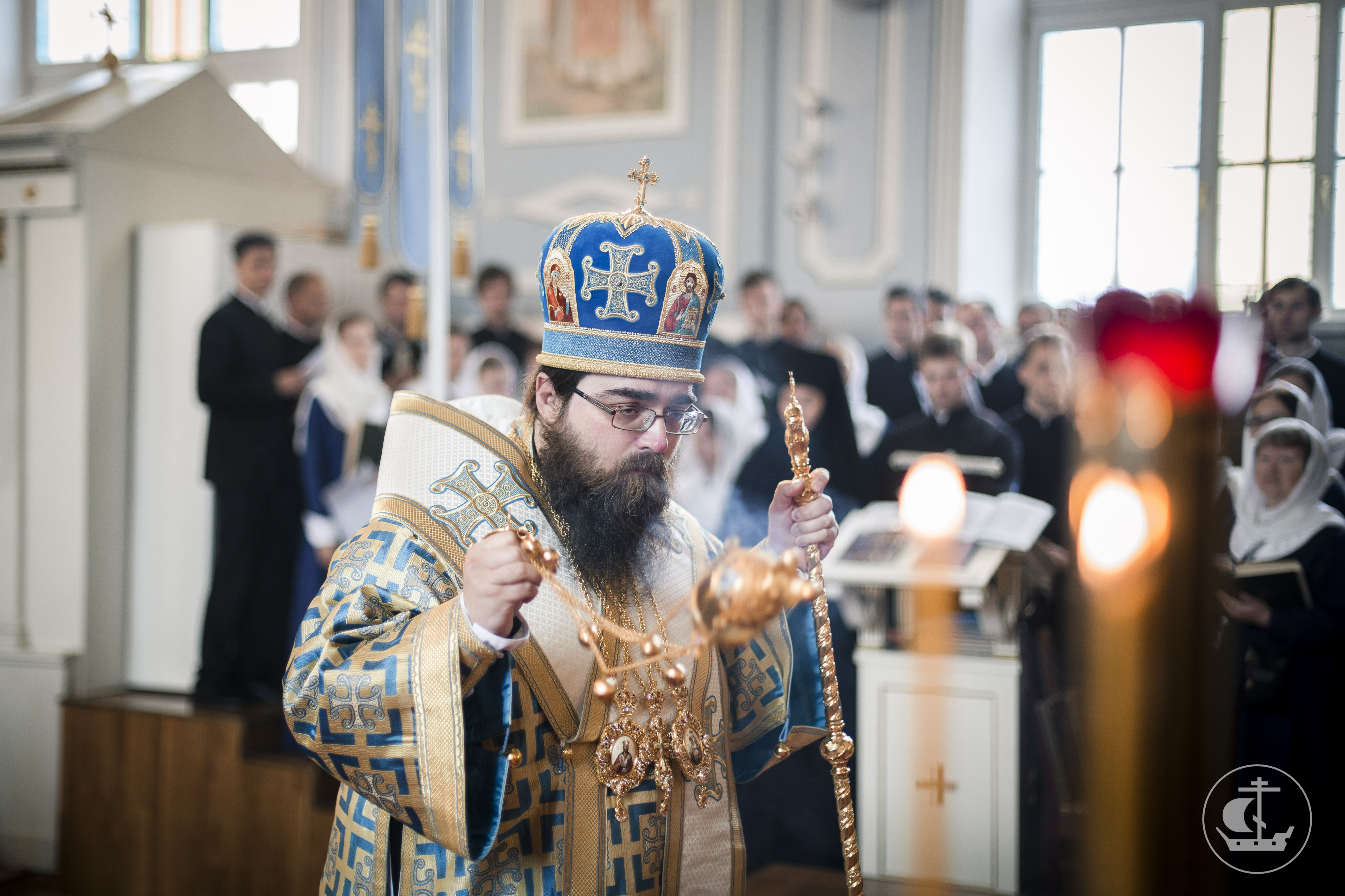 1 сентября 2016, Начало Учебного года. Литургия / 1 September 2016, The beginning of Academic Year. Divine Liturgy